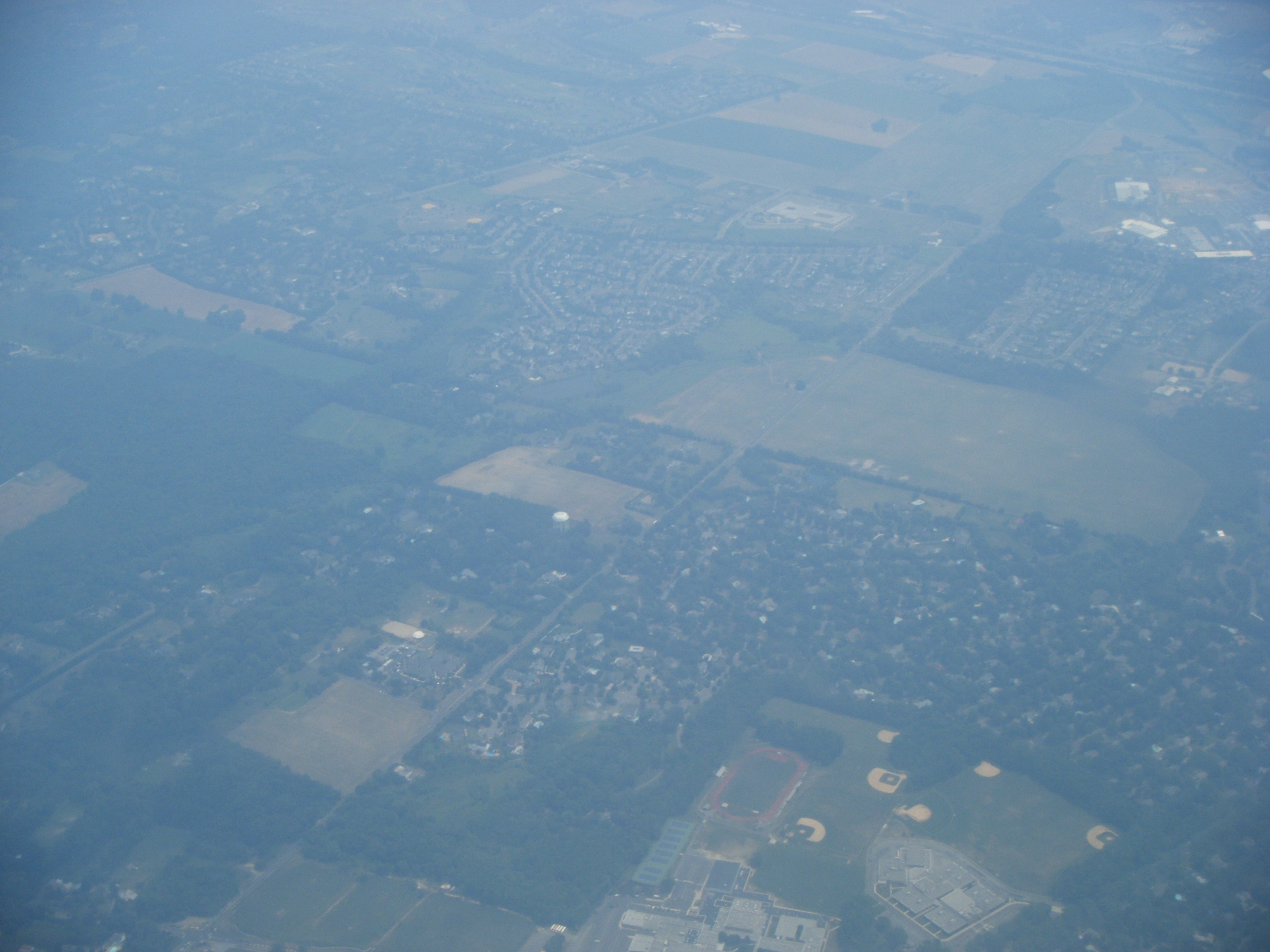 A view of Moorestown Township, New Jersey taken from an airplane.